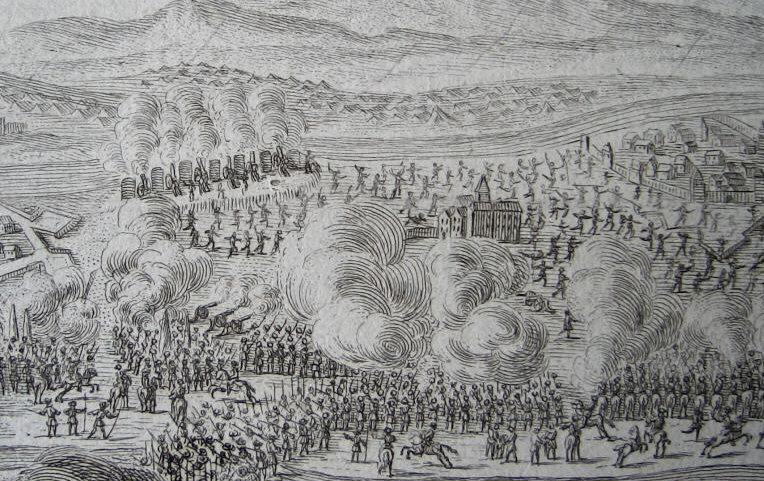 Detail of an old print showing the fight between French and Austrian Infantry during the Battle of Carpi in 1701 during the War of Spanish Succession